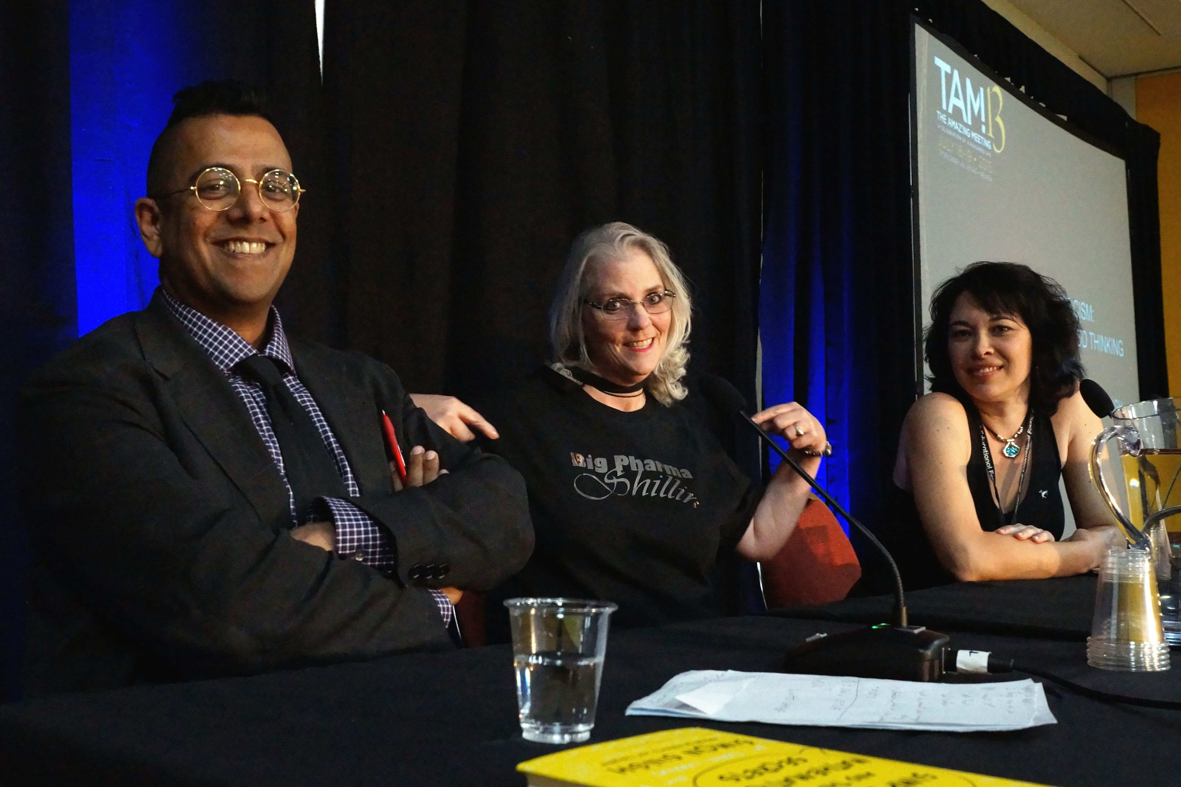 Simon Singh, Susan Gerbic and Sharon Hill participate in the "Practical Skepticism: Promoting Everyday Good Thinking" workshop at TAM 13 in Las Vegas, Nevada on July 16, 2015.